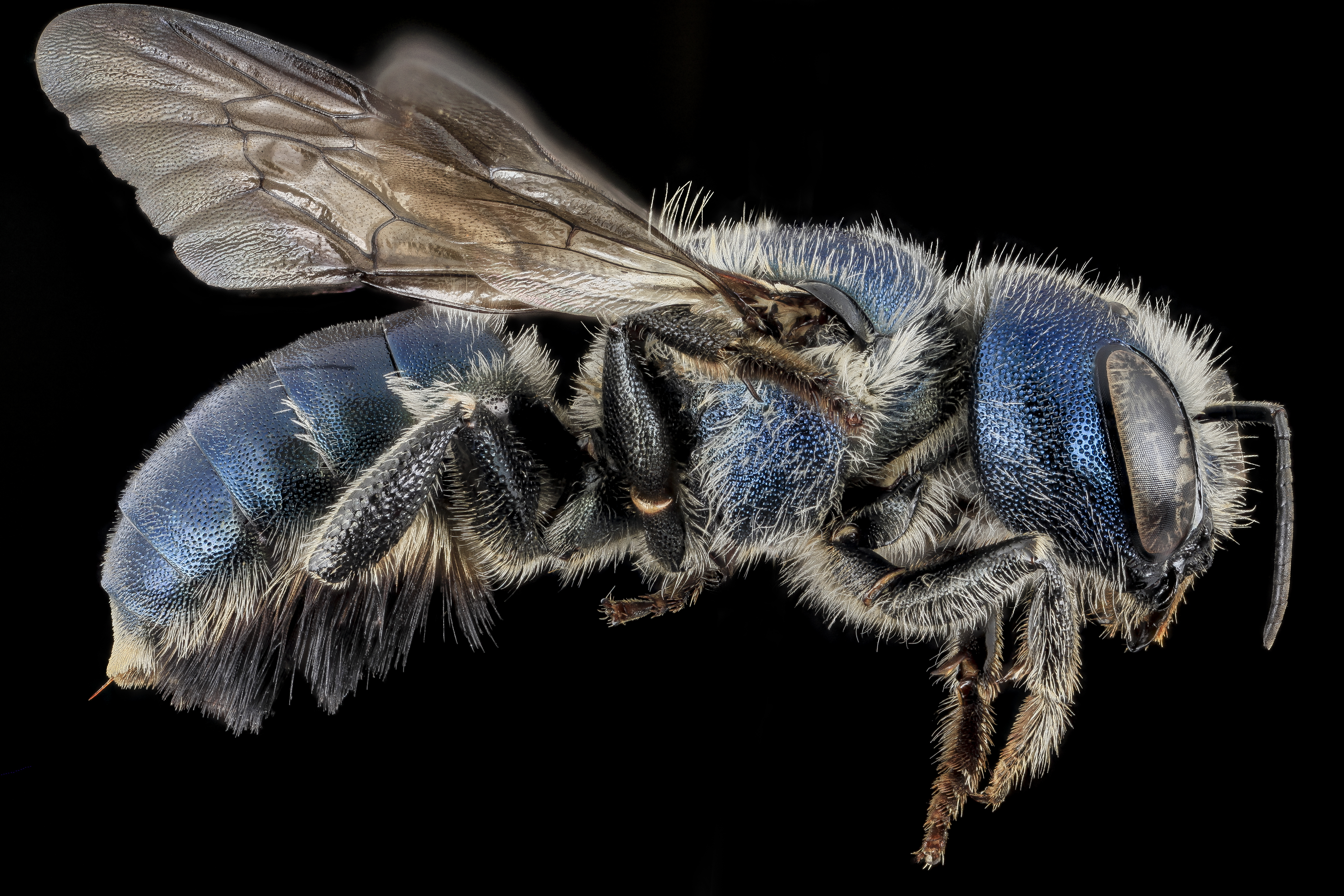 Osmia texana, female. A thistle hugging giant of an Osmia..., who can't but love thistles and the several bee species that depend on them. Here is a specialist that depends on pollen from our native thistle plants to provision the cells of its young. Too often our native thistles also are taken out when people spray for introduced bull and Canada Thistles. Collected by Tim McMahon and the first state record for Maryland, Photographed by Aaman Mengis. Canon Mark II 5D, Zerene Stacker, Photographer: Sam Droege, 65mm Canon MP-E 1-5X macro lens, Twin Macro Flash, F5.0, ISO 100, Shutter Speed 200